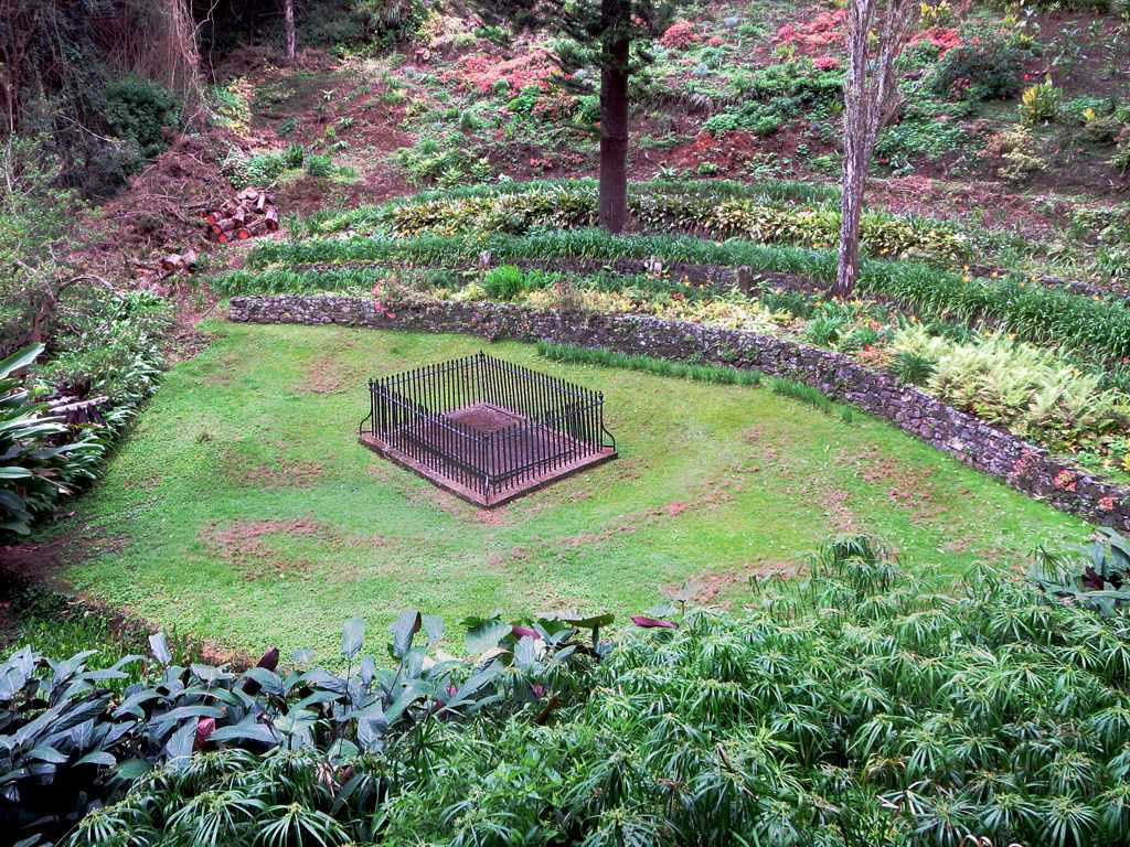 Napoleon Bonaparte himself chose this location at Hutts Gate for his grave. He was buried here when he died in 1821 but in 1840 his remains were moved from St Helena Island to Paris, France.